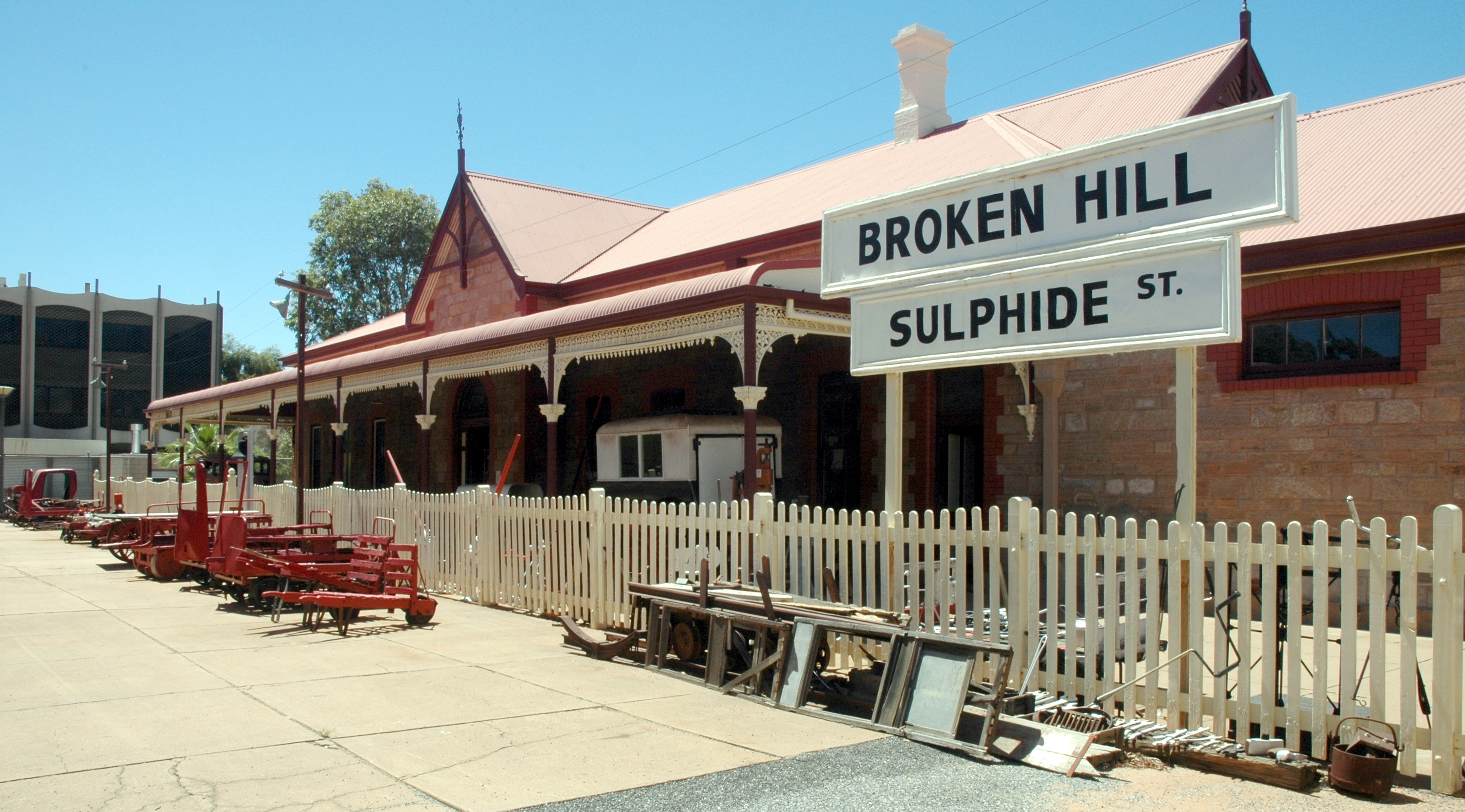 Sulphide St railway station, Broken Hill NSW AustraliaConollyb 01:51, 5 June 2007 (UTC)